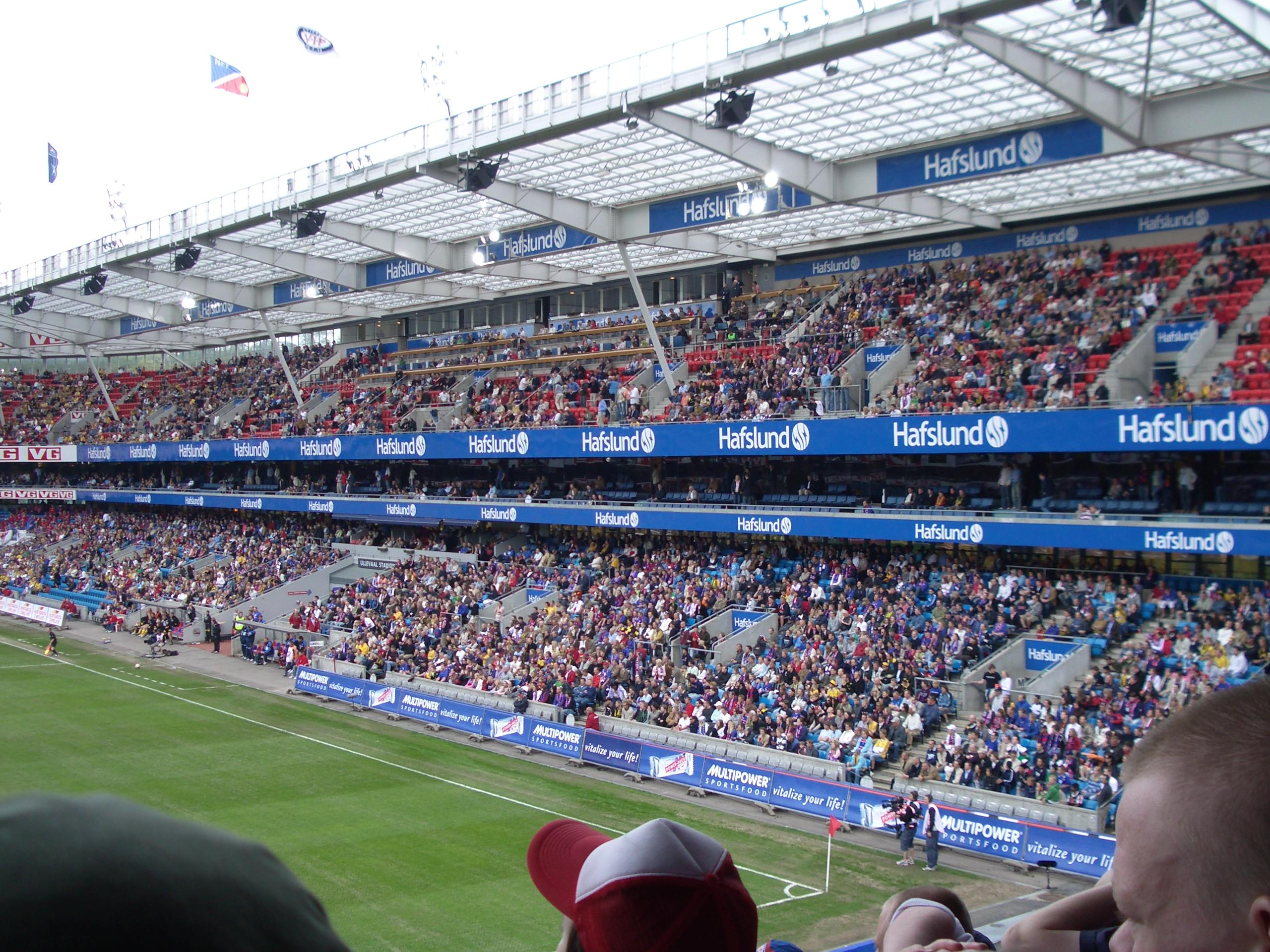 Ullevaal Stadion in Oslo, Norway. The main stand.